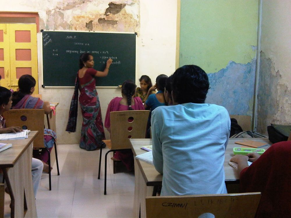 Math class. From the GiveWell visit to NGO Pratham in Mumbai, India. August-November 2010. More information.